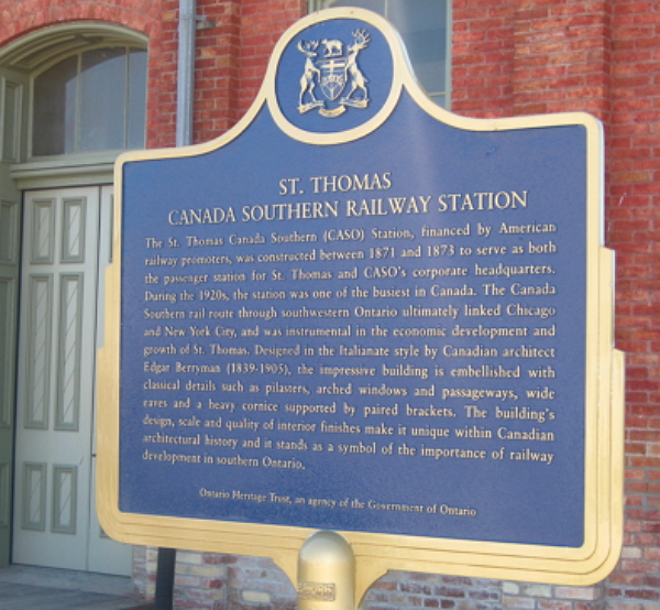 This is the Ontario Heritage Trust Plaque at the restored Canada Southern Railway Station in St. Thomas, Ontario, Canada, taken August 2013. The picture is taken of the sign at the northwest corner of the building. It was built 1873, is now owned by the North America Railway Hall of Fame and the sign was unveiled June 17, 2011.